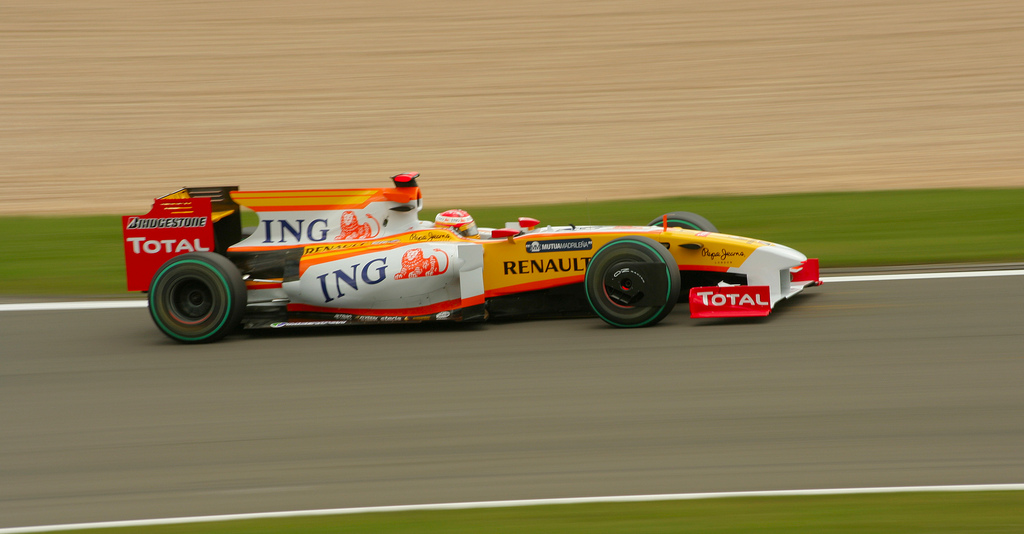 Fernando Alonso driving for Renault F1 at the 2009 German Grand Prix.